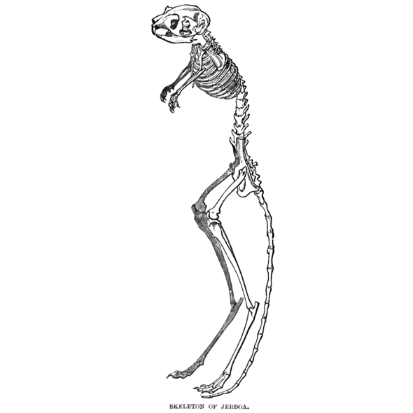 Skeleton of Jaculus spec.